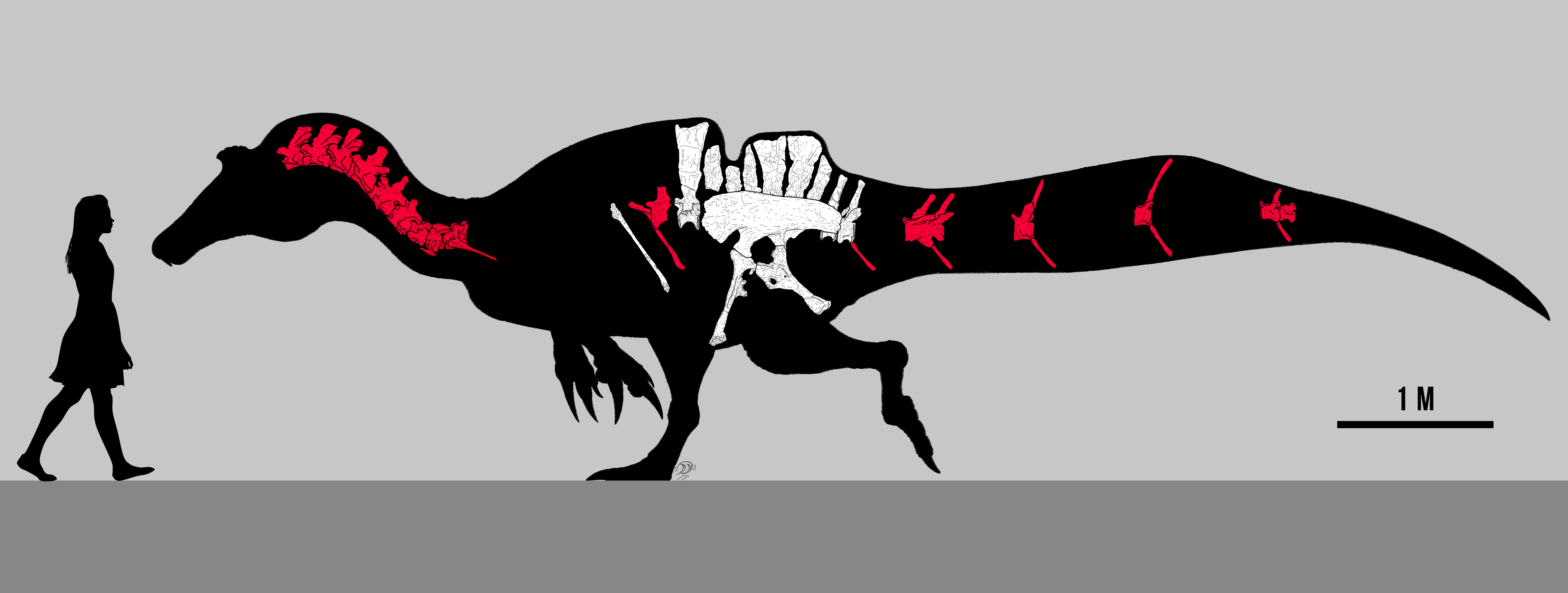 Rigorous skeletal diagram of the spinosaurid theropod Ichthyovenator laosensis. Holotype fossils are in white, and undescribed remains in red. References: Fossil material: Allain et al. (2012).[1] National Museum of Nature and Science, Tokyo.[2][3][4] Muséum national d'Histoire naturelle, Paris.[5] Tail fin: Muséum national d'Histoire naturelle, Paris.[6] Arden et al. (2018).[7] Allain (pers. comm.). Basis for spinosaurine classification and resulting inferences: Allain et al. (2014).[8] Arden et al. (2018).[9] Head based on Irritator challengeri, "Angaturama", Oxalaia quilombensis, and Spinosaurus aegyptiacus: Sales and Schultz (2017).[10] Ibrahim et al. (2020).[11]" Hands and arms based on "Angaturama", Spinosaurus aegyptiacus, Suchomimus tenerensis, and Baryonyx walkeri: Aureliano et al. (2018).[12] Ibrahim et al. (2014).[13] Francisco Bruñén (2018).[14] Scott Hartman (2018).[15] Torso, legs, and missing sail and tail anatomy based on Spinosaurus aegyptiacus, Romualdo Formation Spinosaurinae, and Suchomimus tenerensis: Ibrahim et al. (2020).[16]" Aureliano et al. (2018).[17] Francisco Bruñén (2018).[18] Feet based on Spinosaurus aegyptiacus and Portuguese Spinosauridae indet. tracks: Ibrahim et al. (2014) (supplementary materials).[19] Casanovas et al. (1993)[20]